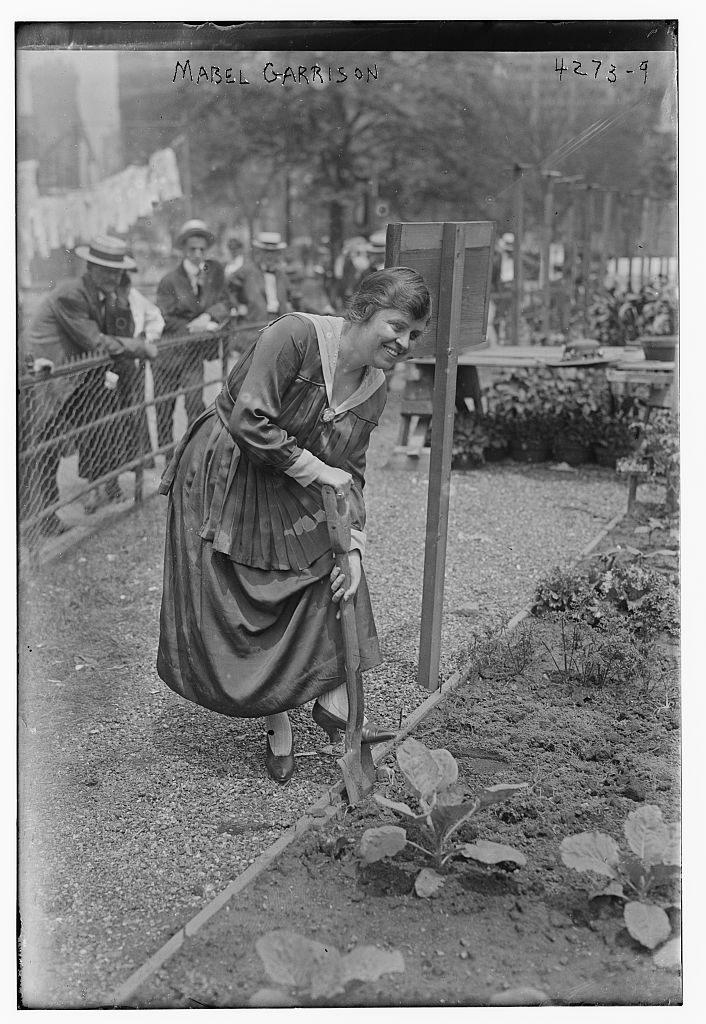 Bain News Service,, publisher. Mabel Garrison [between ca. 1915 and ca. 1920] 1 negative : glass ; 5 x 7 in. or smaller. Notes: Title from data provided by the Bain News Service on the negative. Forms part of: George Grantham Bain Collection (Library of Congress). Format: Glass negatives. Repository: Library of Congress, Prints and Photographs Division, Washington, D.C. 20540 USA, General information about the Bain Collection is available at Higher resolution image is available (Persistent URL): Call Number: LC-B2- 4273-9